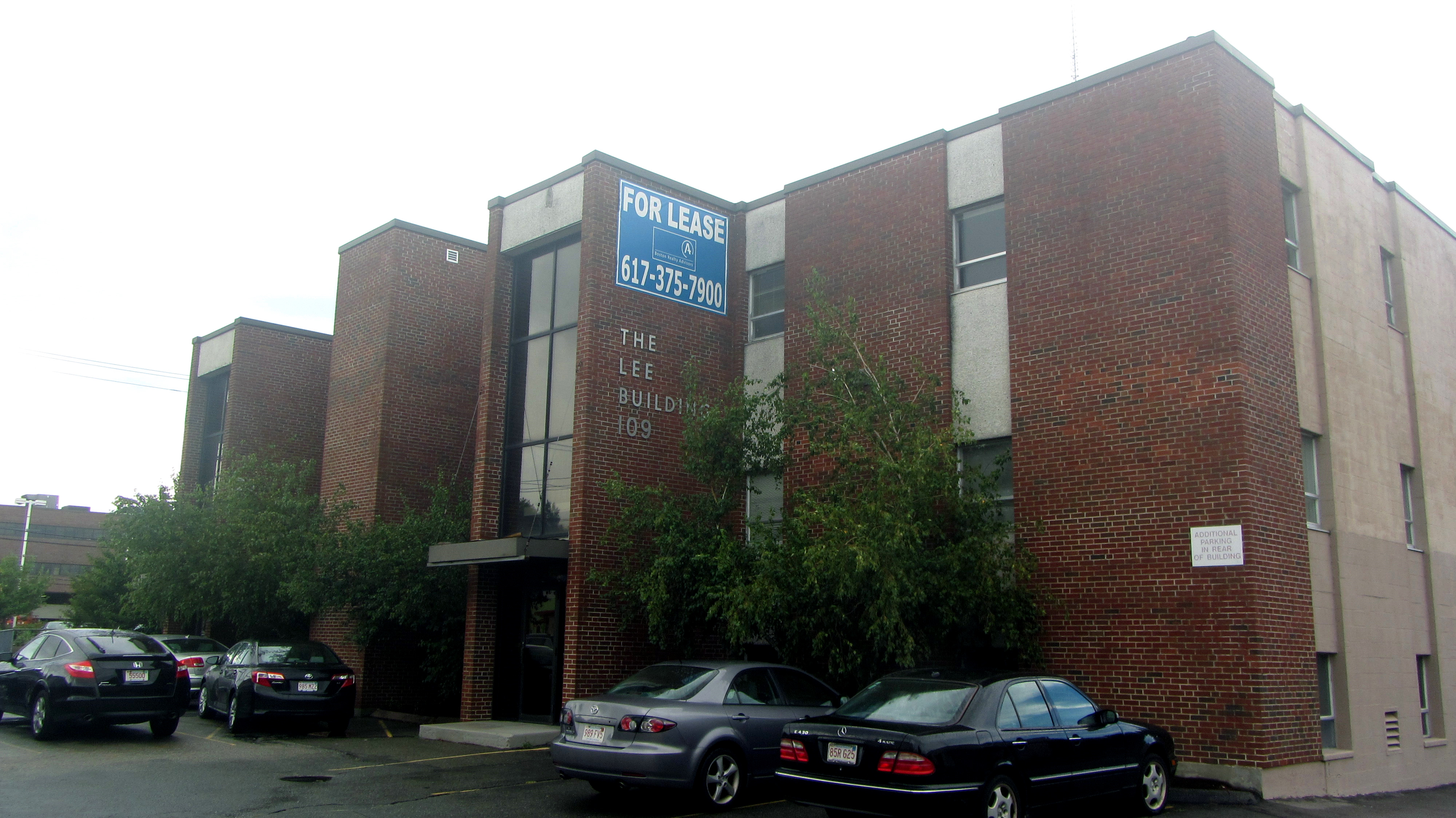 Headquarters of the Object Management Group: 109 Highland Ave, Needham, MA